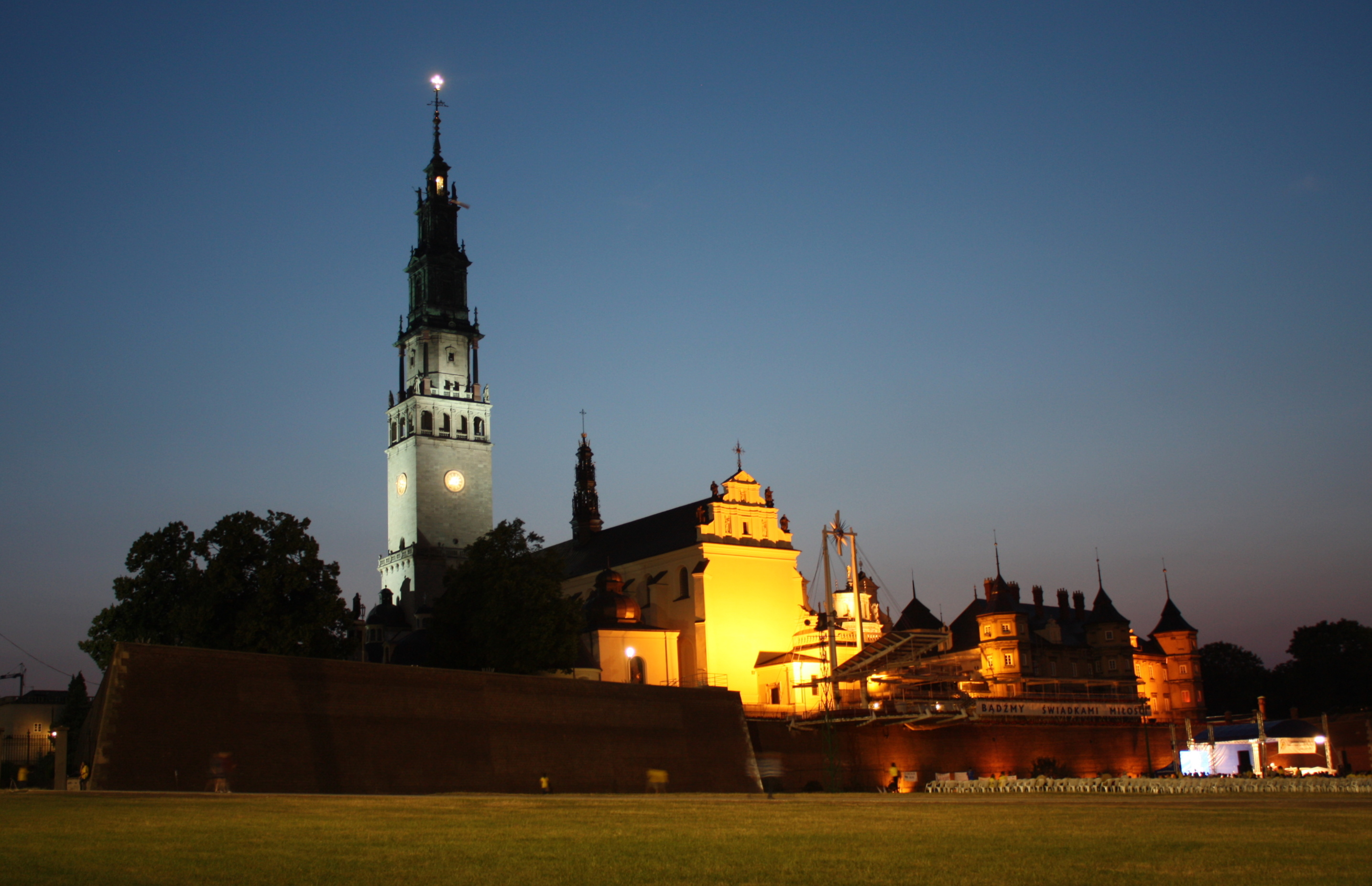 Częstochowa, Monastery and Our Lady Sanctuary on Jasna Góra